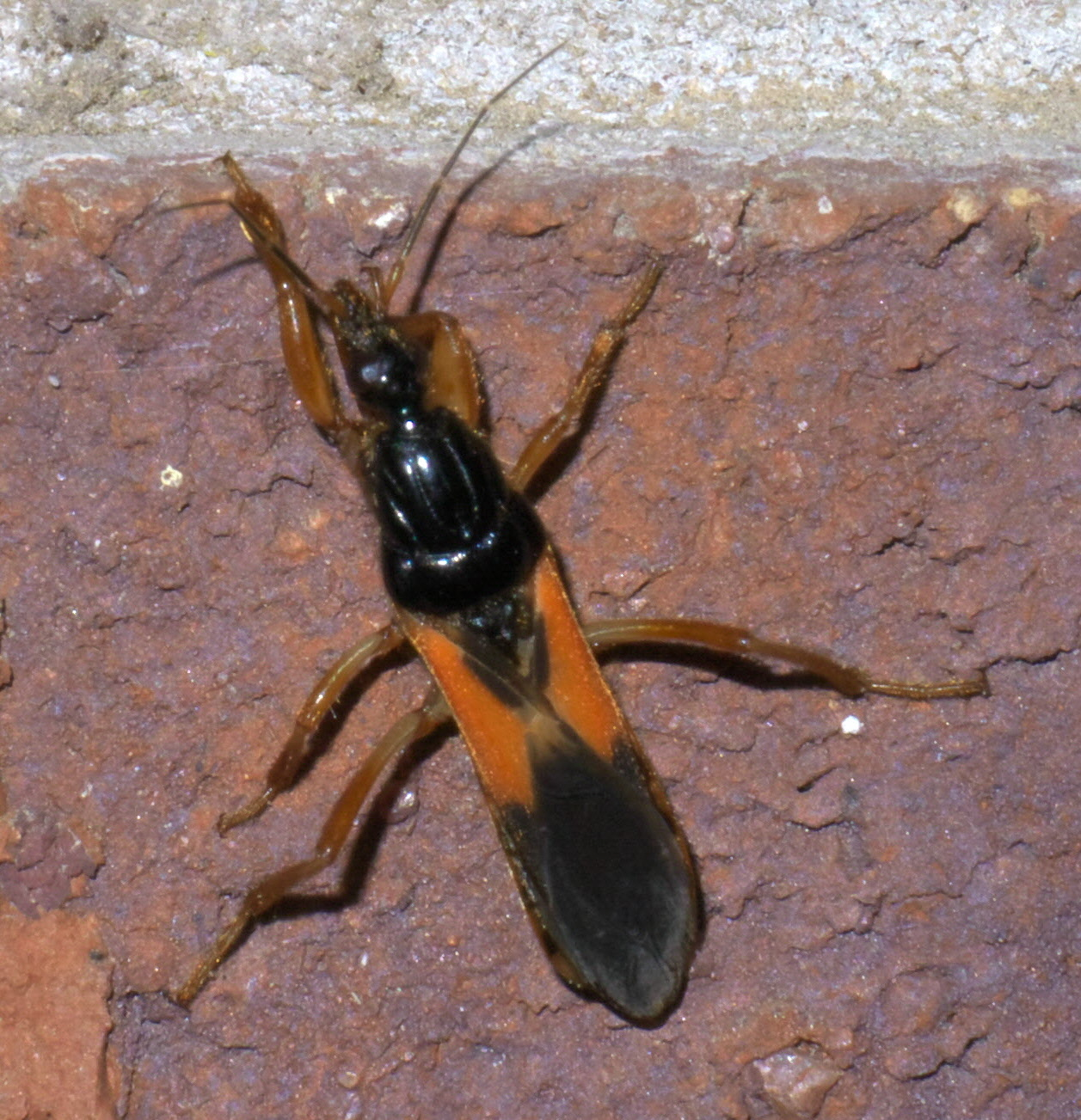 Sirthenea carinata, Subfamily: Corsairs, ID Confidence: 92